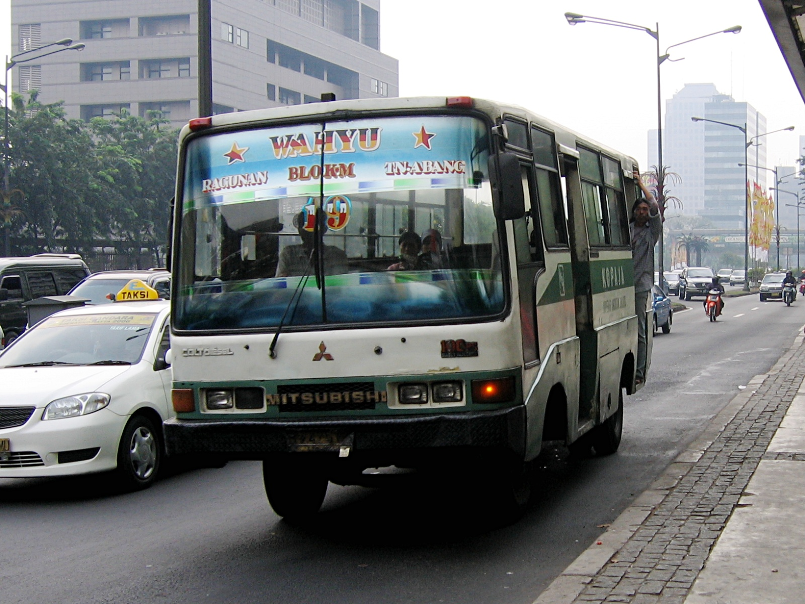 Mitsubishi Colt Diesel bus of Kopaja in Jakarta, Indonesia.